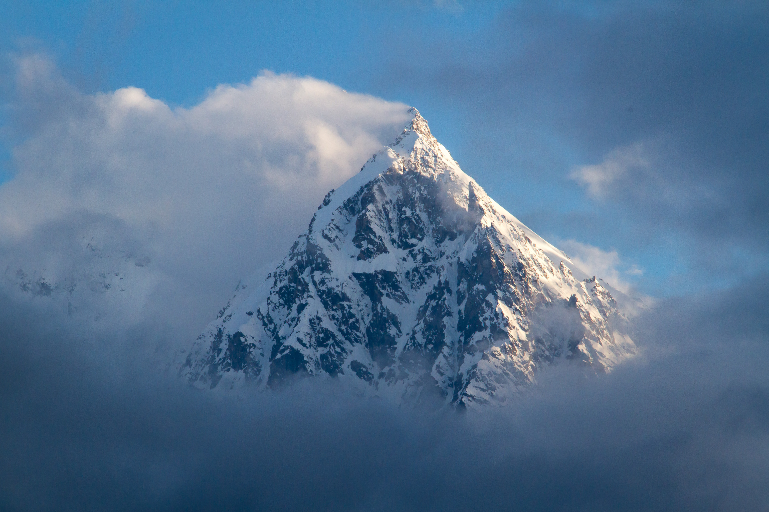 Tihtengen is a mountain range of the Main Caucasus Range, the highest point of which is 4611 m, composed of metamorphic igneous rocks and rocks.